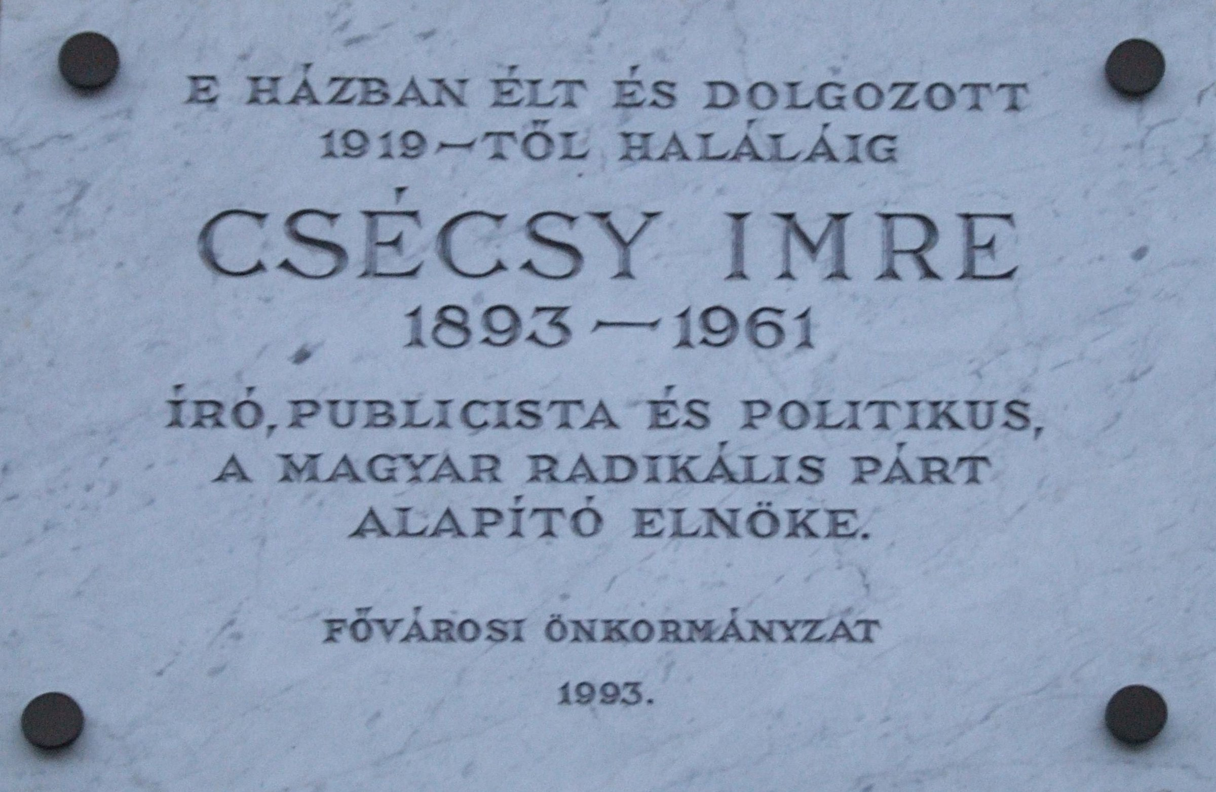 Imre Csécsy commemorative plaque, Budapest District I, Pauler Street No 19